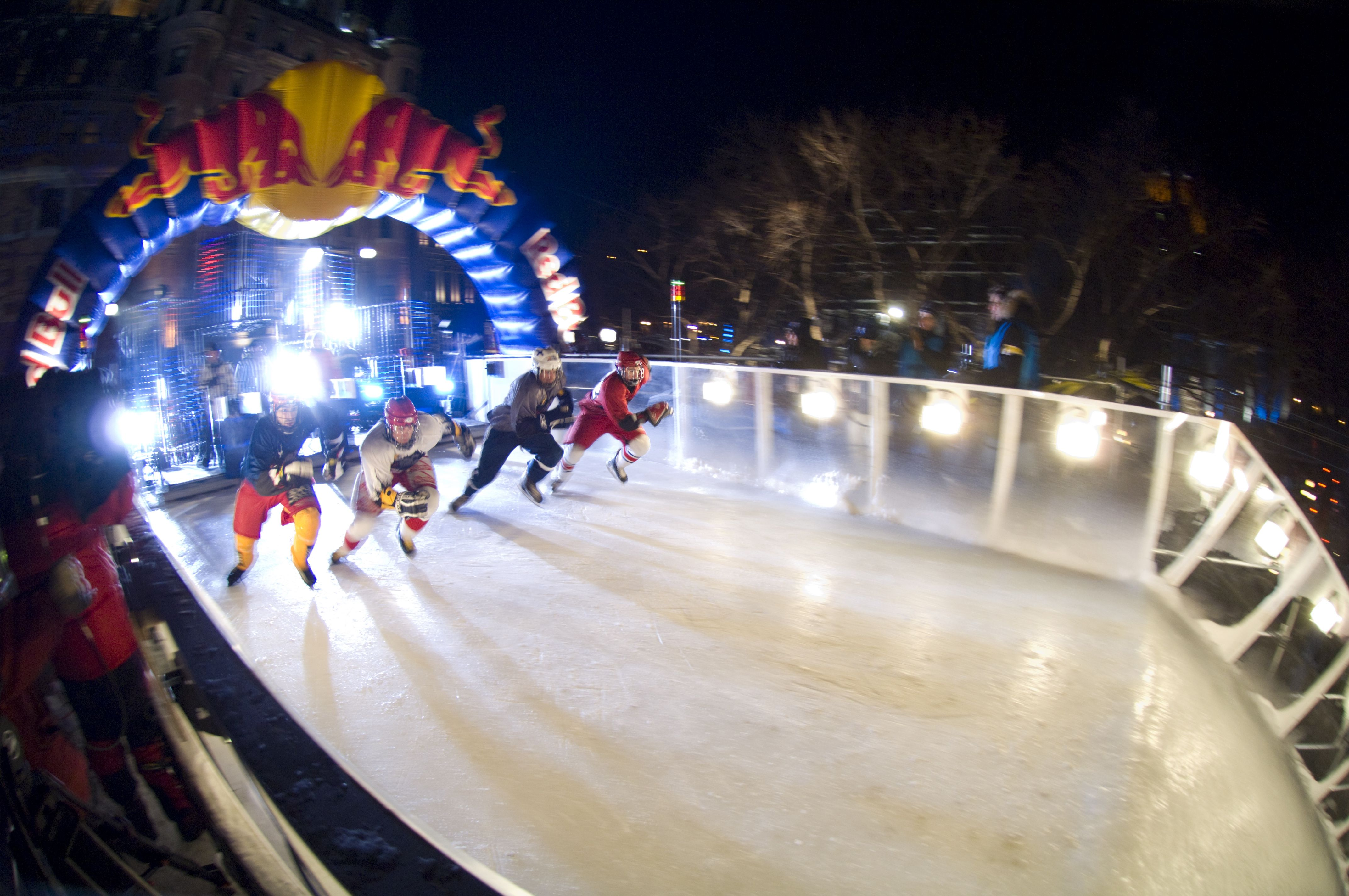 Red Bull Crashed Ice event in 2008